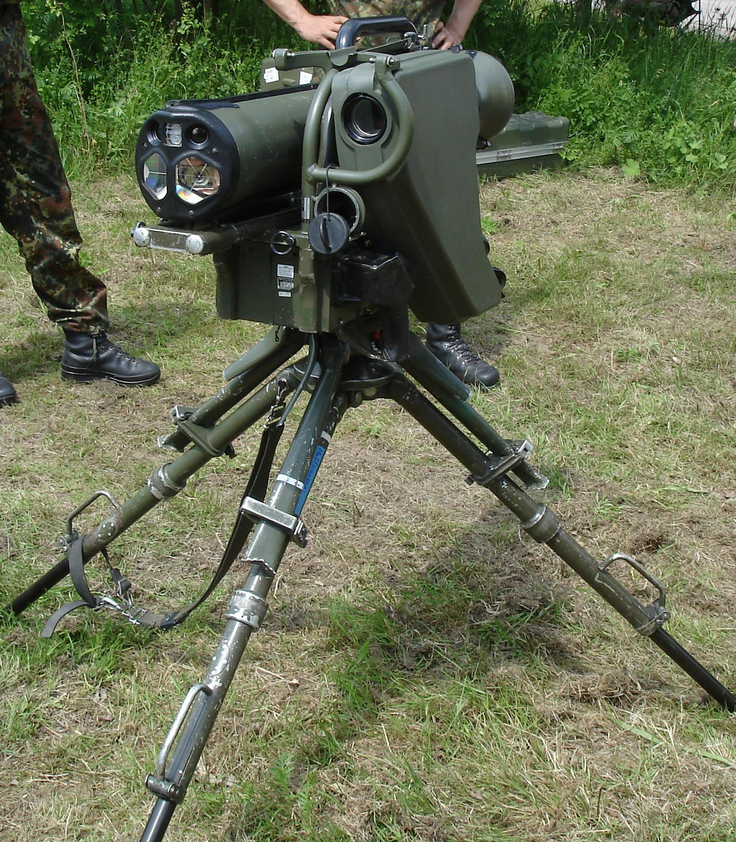 MILAN with Duel Simulator Training System AGDUS (Ausbildungsgerät Duellsimulator)